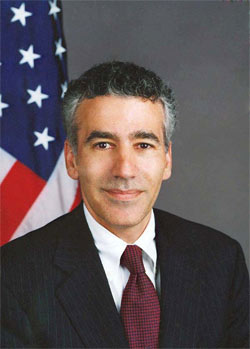 This is the official photo of Ambassador Philip Goldberg from the web site of the US Department of State at